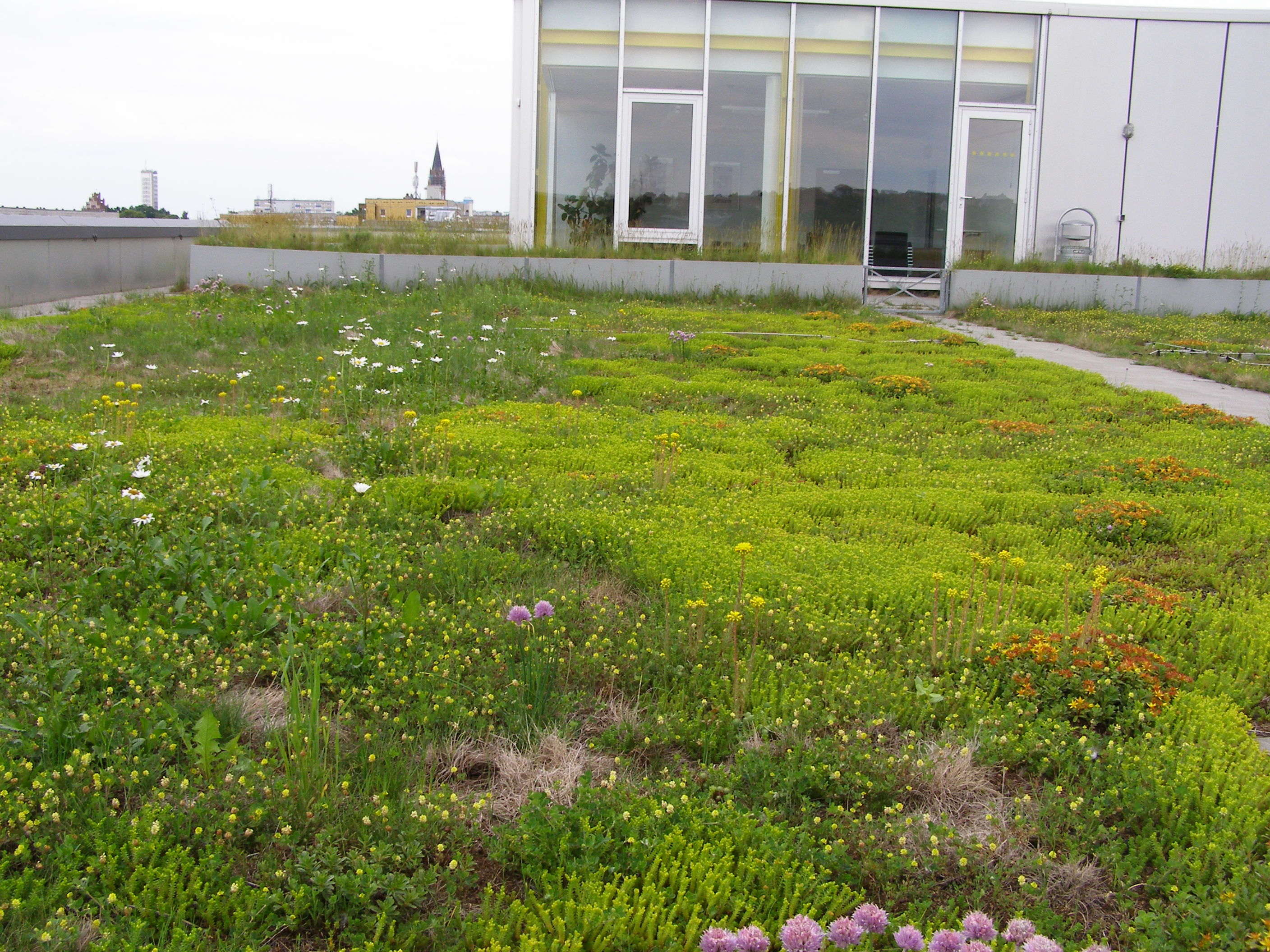 green roof of the University of Neubrandenburg